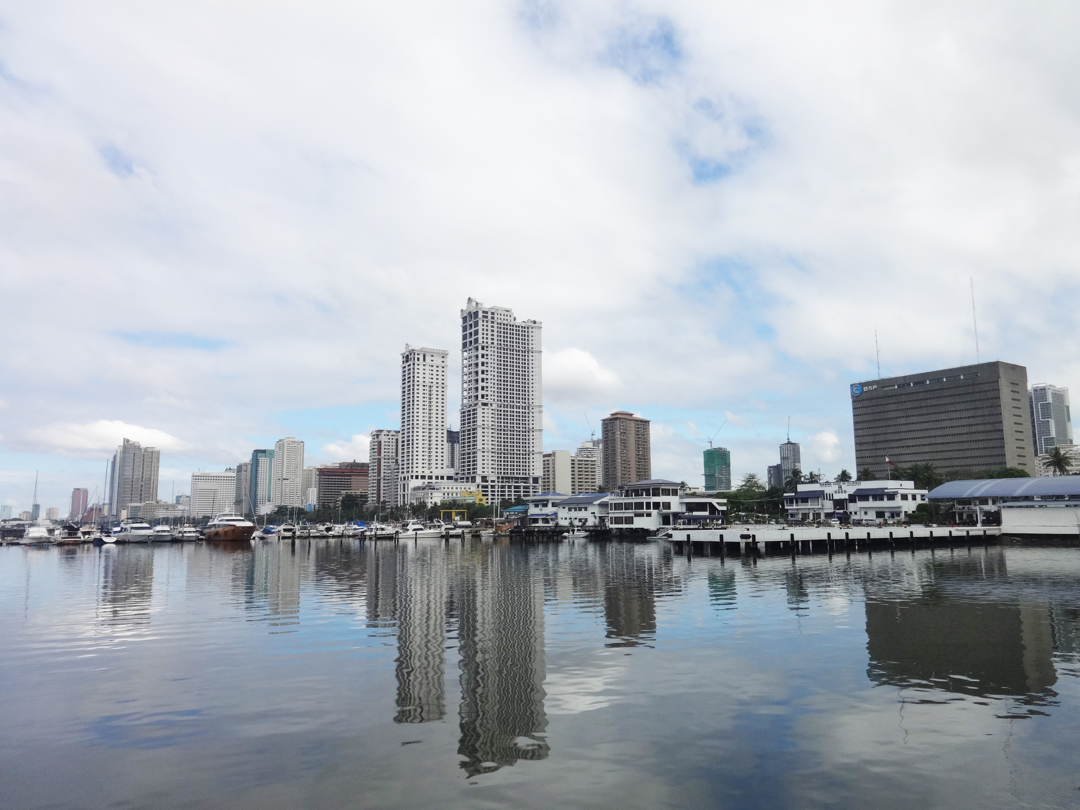 View of Roxas Boulevard skyline in Manila